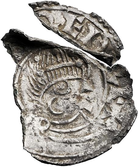 Eadred penny